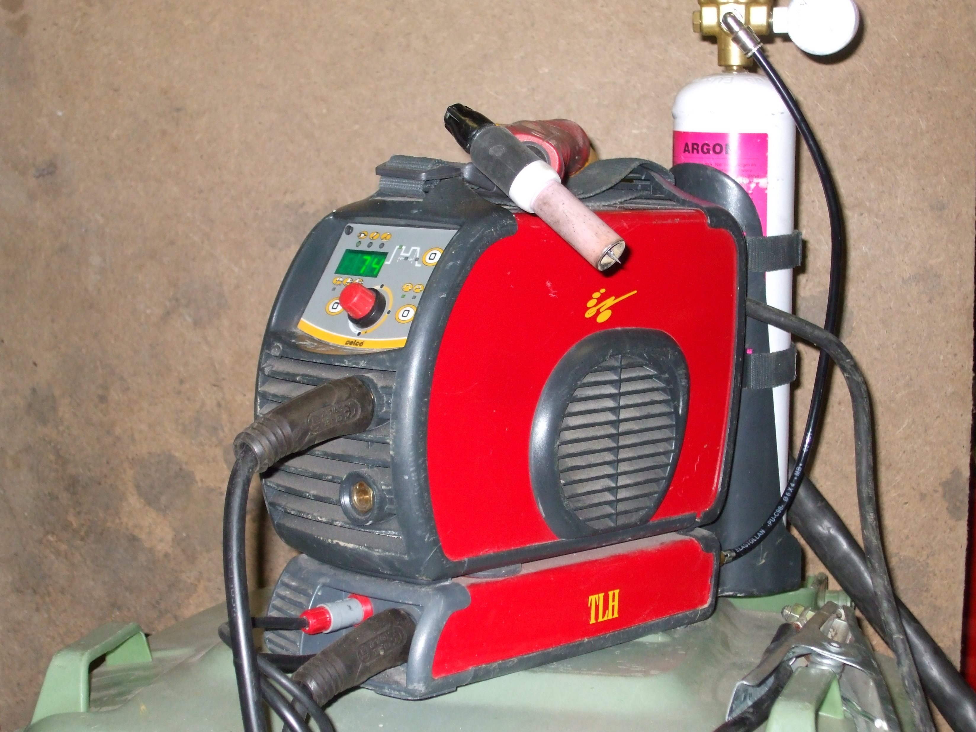 Small modern machine for TIG and electric welding up to 150A (Selco Genesis 1500)